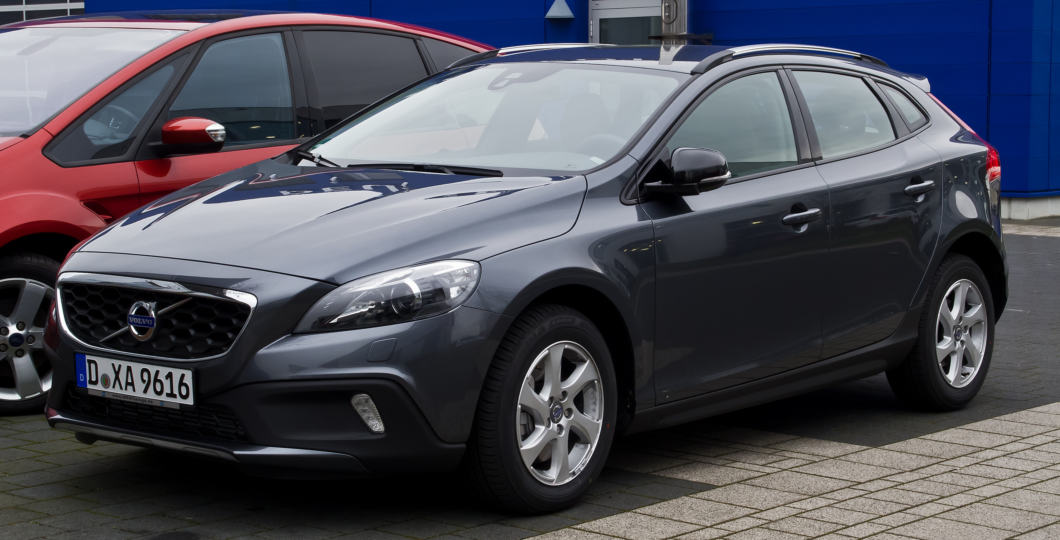 Volvo V40 Cross Country D3 Momentum